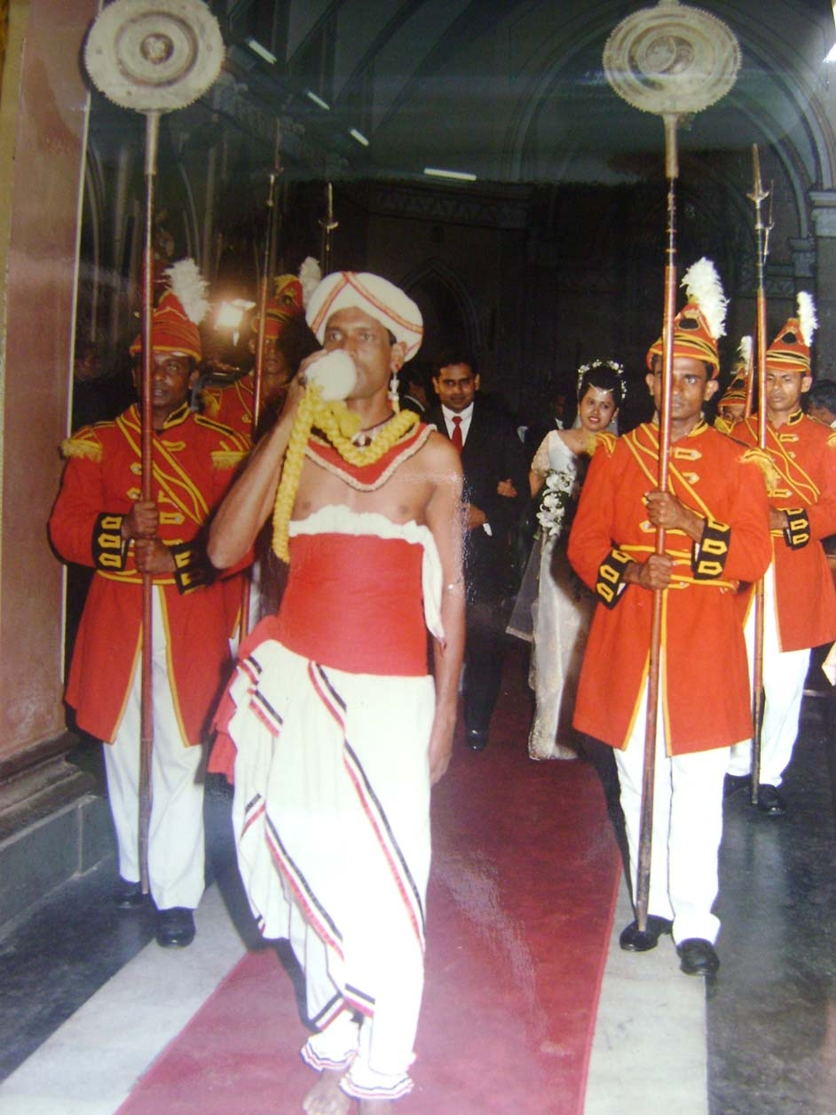 Lascoreen Guard flute player